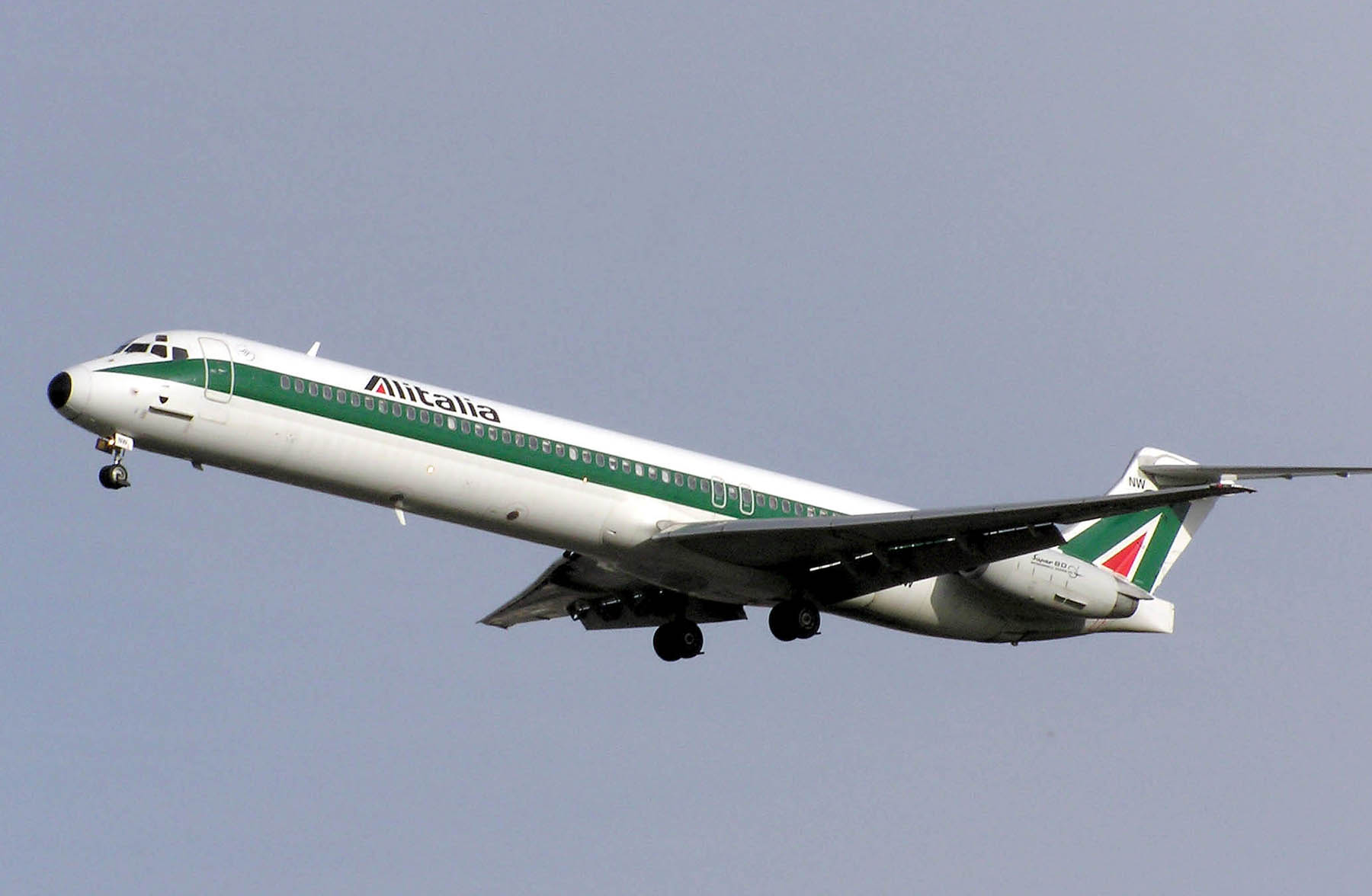 Alitalia McDonnell Douglas MD-82 (I-DANW) landing at London (Heathrow) Airport, England.